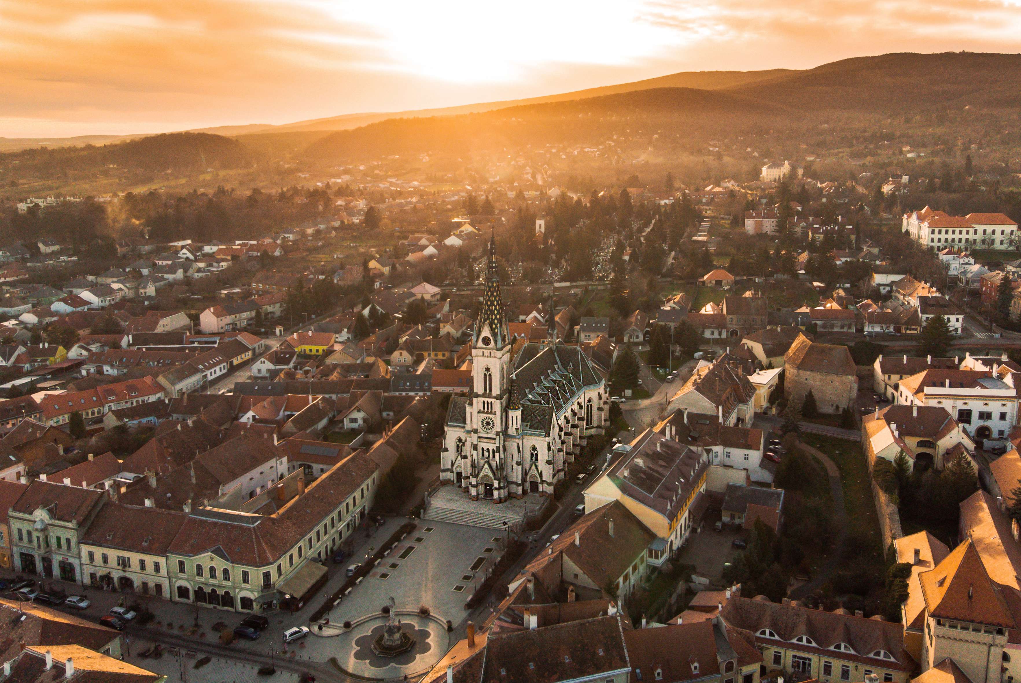 Photo of the city Kőszeg